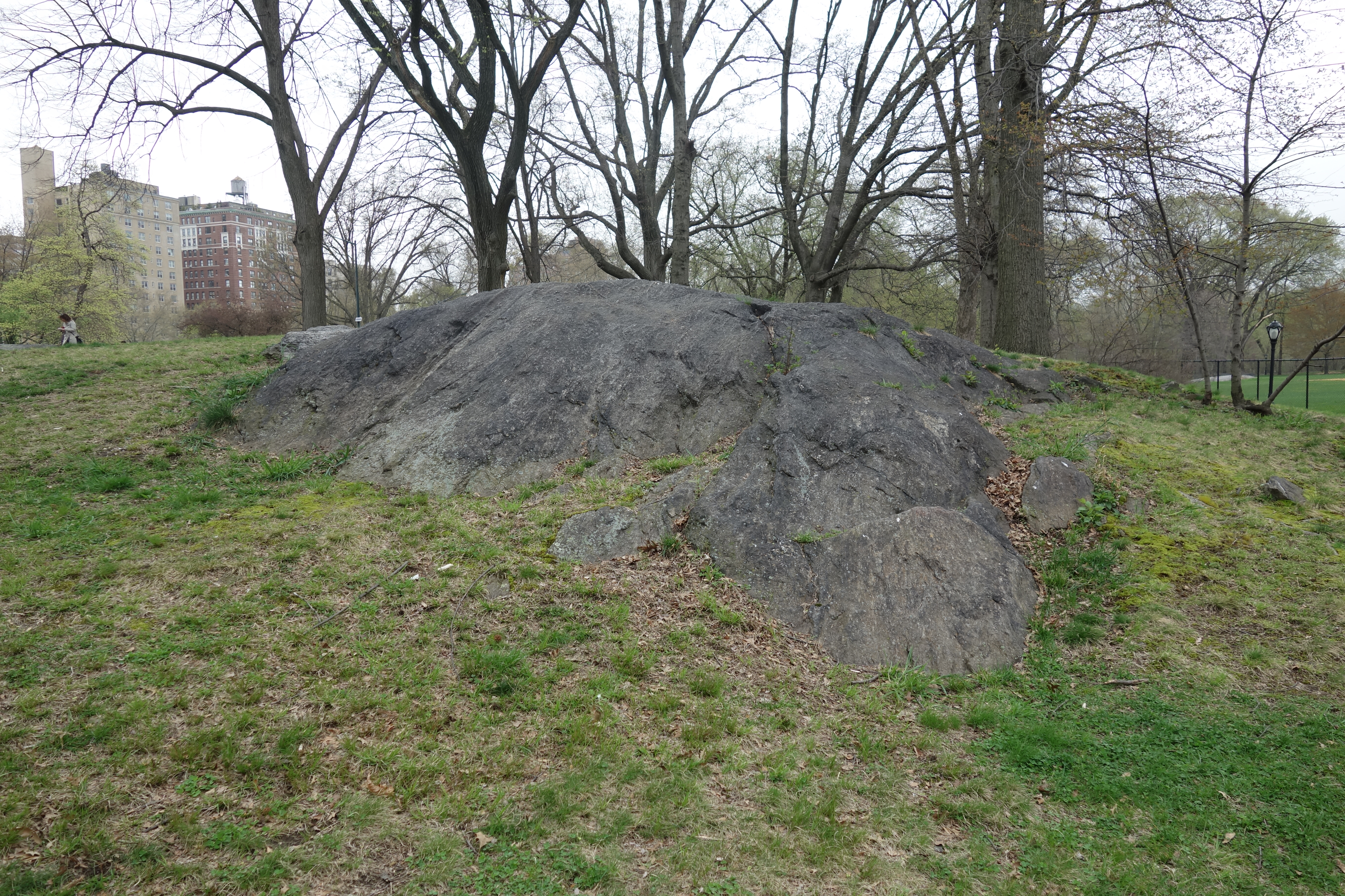 Walking east along the curvy trail towards the ballfields in the North Meadow area of Central Park from West Drive, north of the 97th Street Transverse near the Upper West Side, Manhattan.